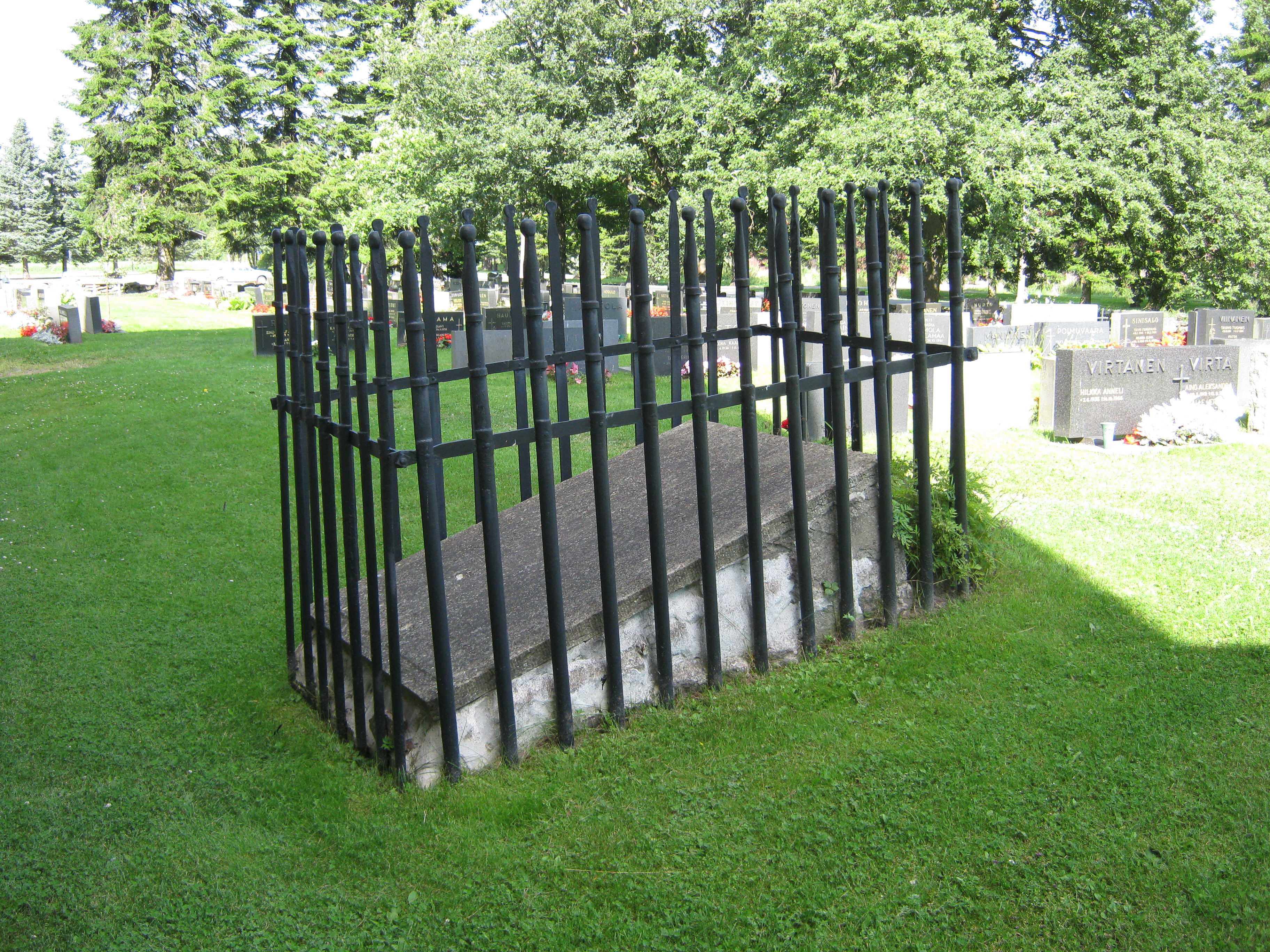 Grave of the Finnish businessman, owner of the Anola Manor and the Leineberg Bruk, Jonas Beckman (1729-1811) at the Ulvila Cemetery.